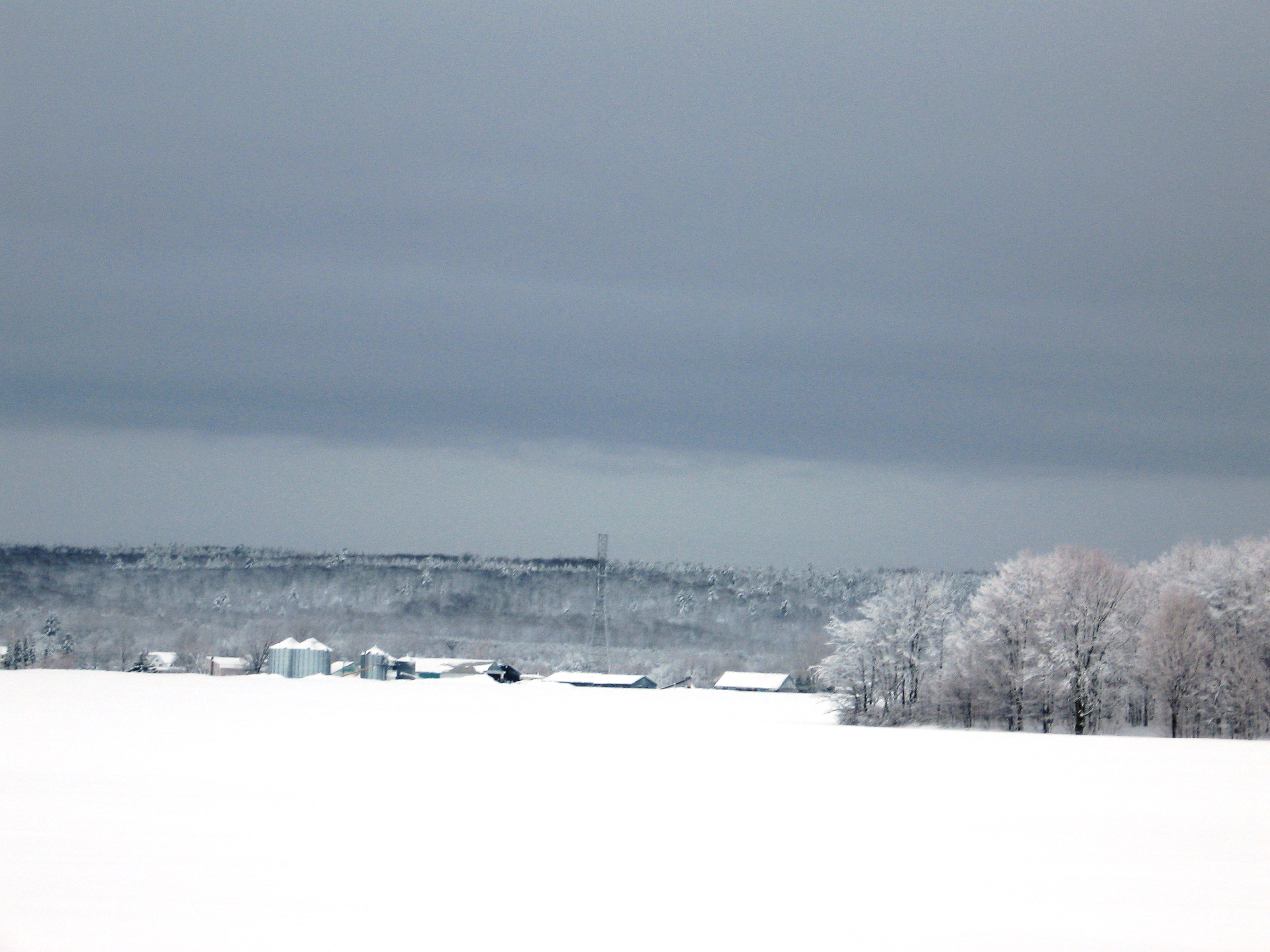 Vue de la Municipalité de Saint-Justin l'hiver.